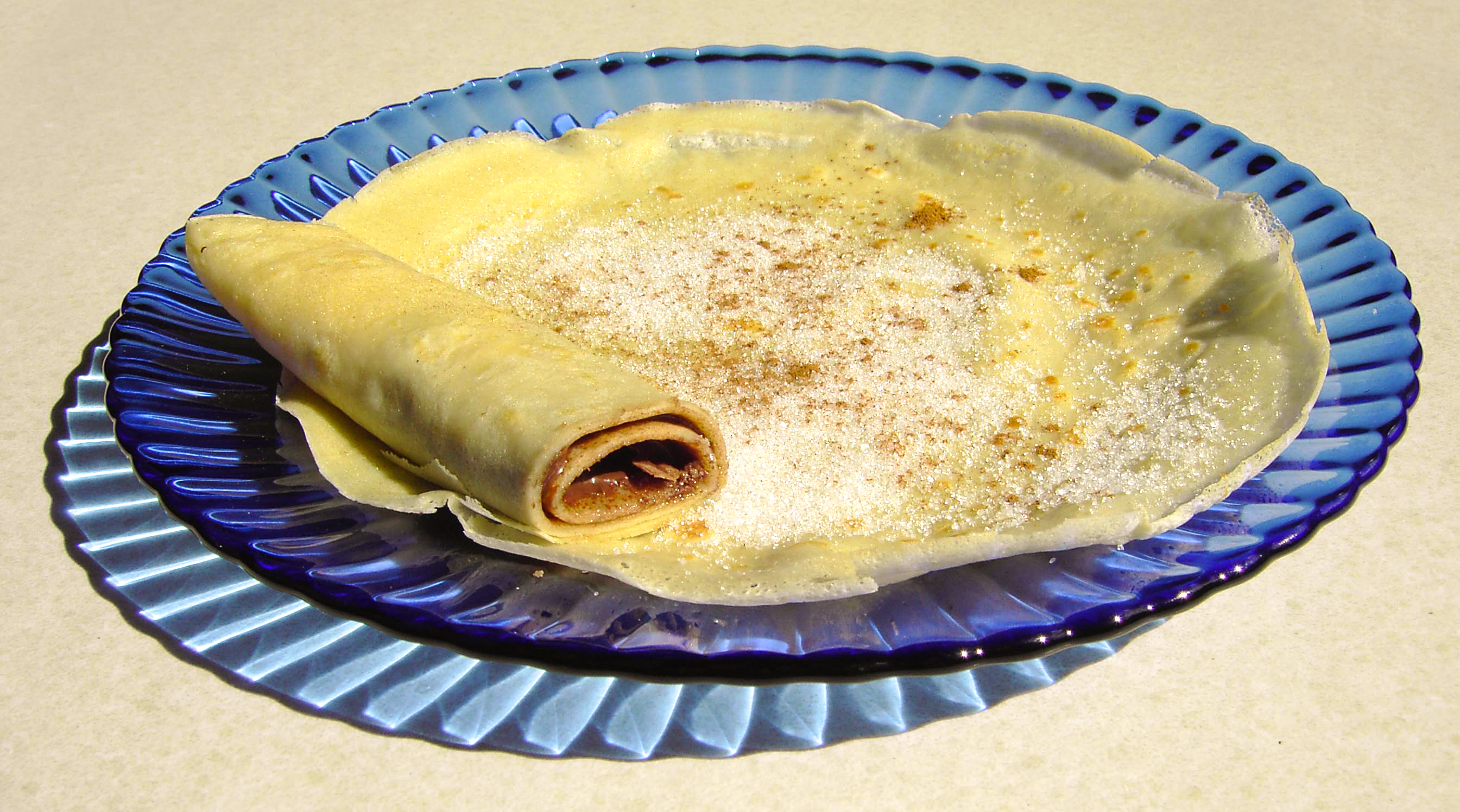 Two pancakes: one with sugar and cinnamon, the other with Nutella.